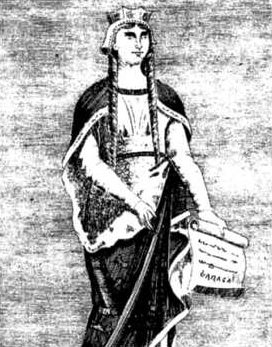 Doña Urraca de Zamora in an engraving from the magazine "Zamora Ilustrada" from 1882.